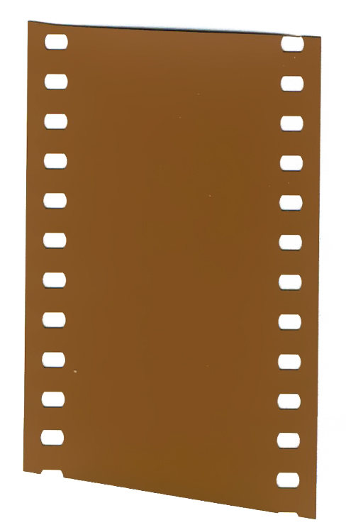 A small piece of undeveloped 35 mm color camera negative.